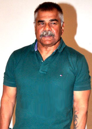 Sharat Saxena at the music launch of the film Luckhnowi Ishq.